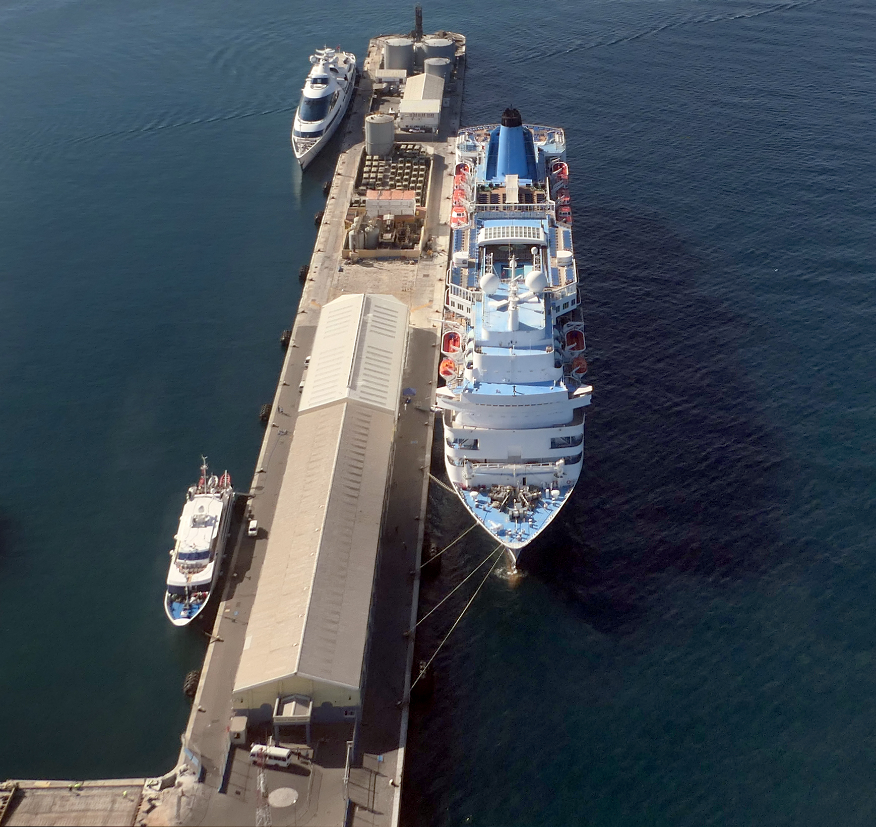 An aerial photo of Gibraltar Cruise Terminal.